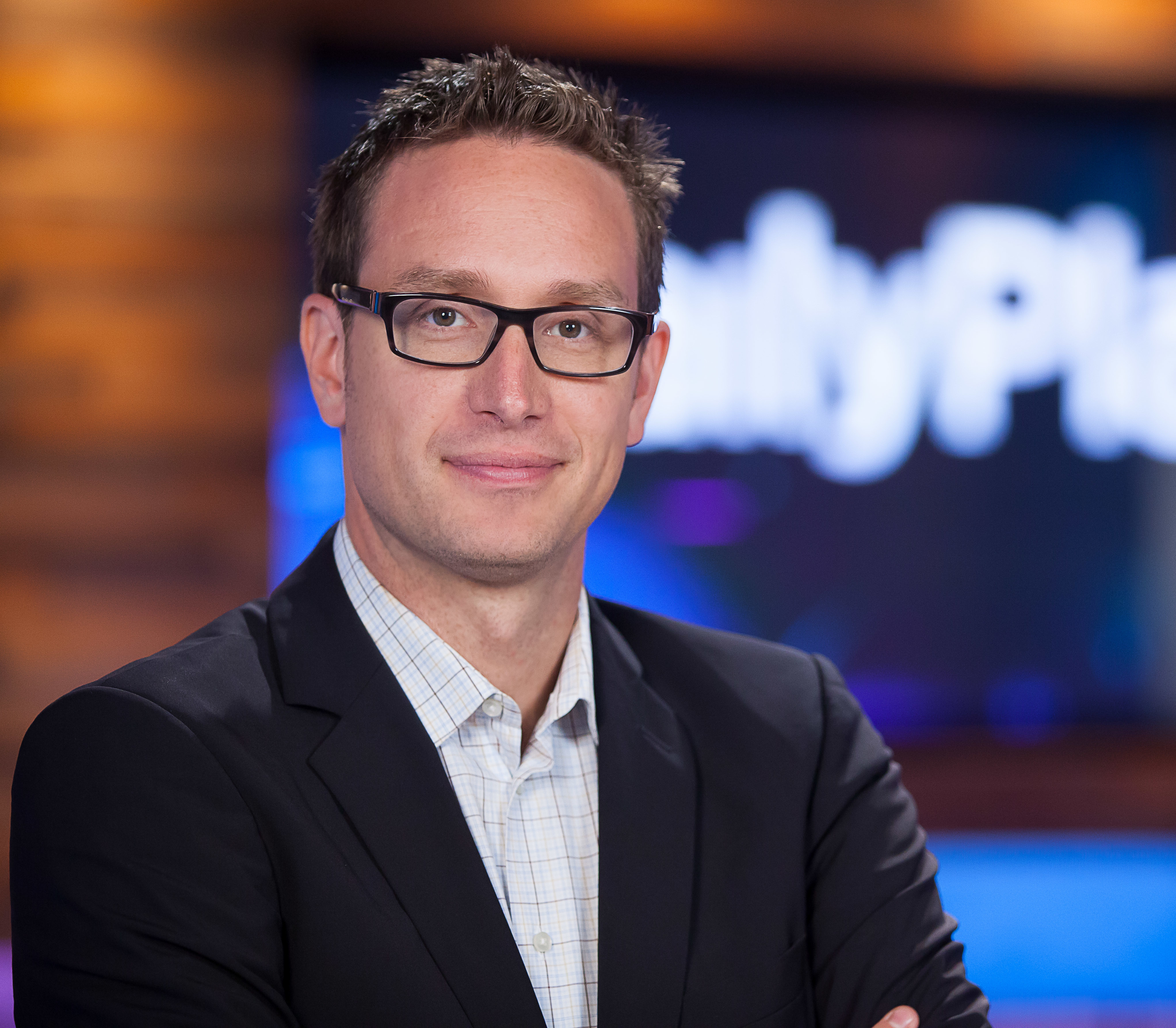 Photo of Dan in the Daily Planet Studio.